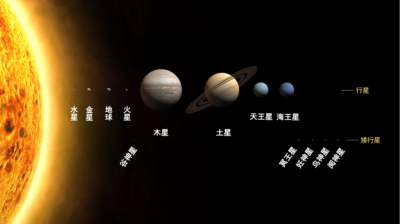 Planets and dwarf planets of the solar system